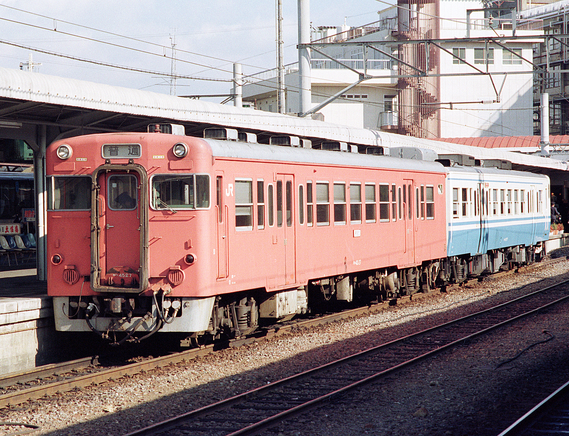 JNR Kiha 45 27